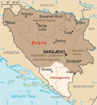 Map of Bosnia and Herzegovina showing the region of Bosnia and the region of Herzegovina